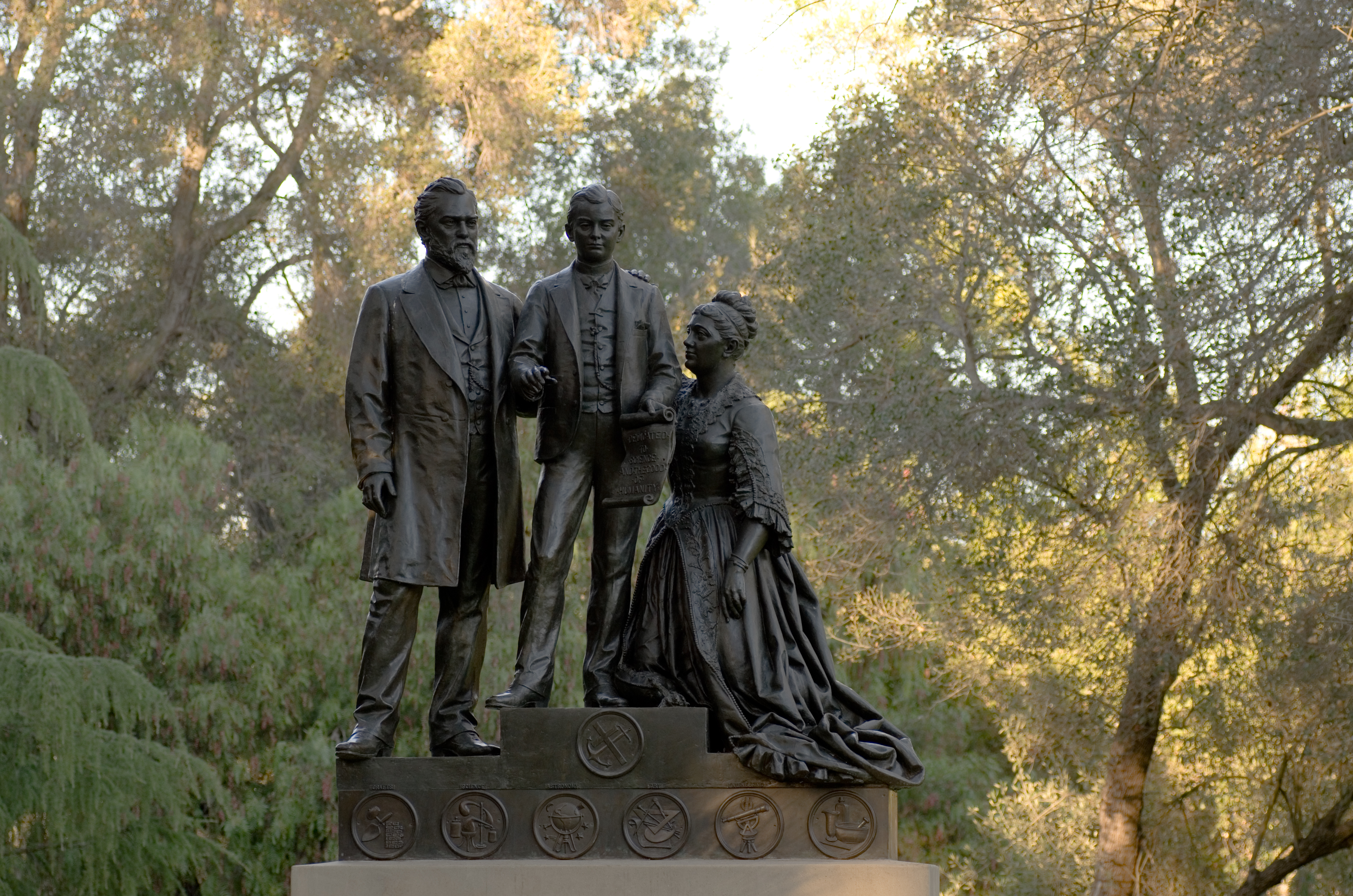 "Leland Stanford and Family" — by Larkin Goldsmith Mead, bronze, 1899. On the Stanford University campus, Stanford, California.